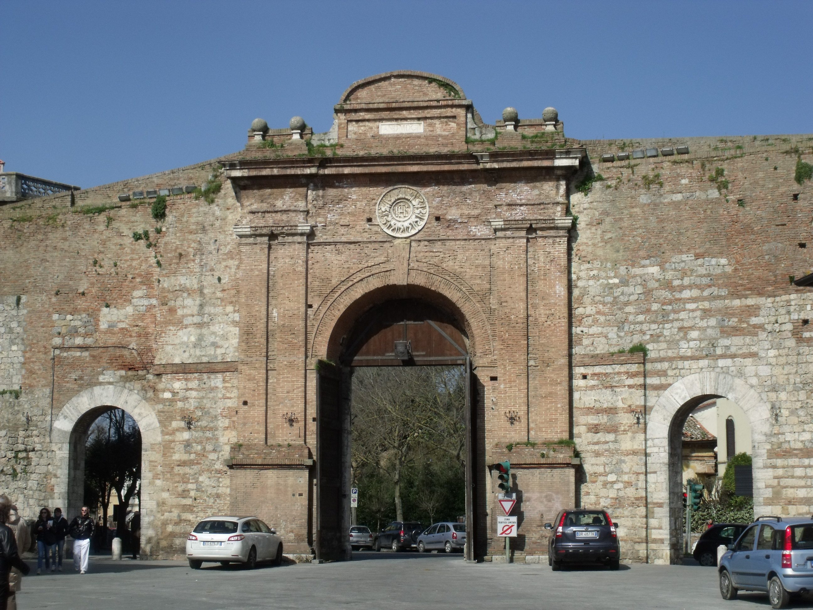 Porta Camollia (Inside) in Siena, Tuscany, Italy